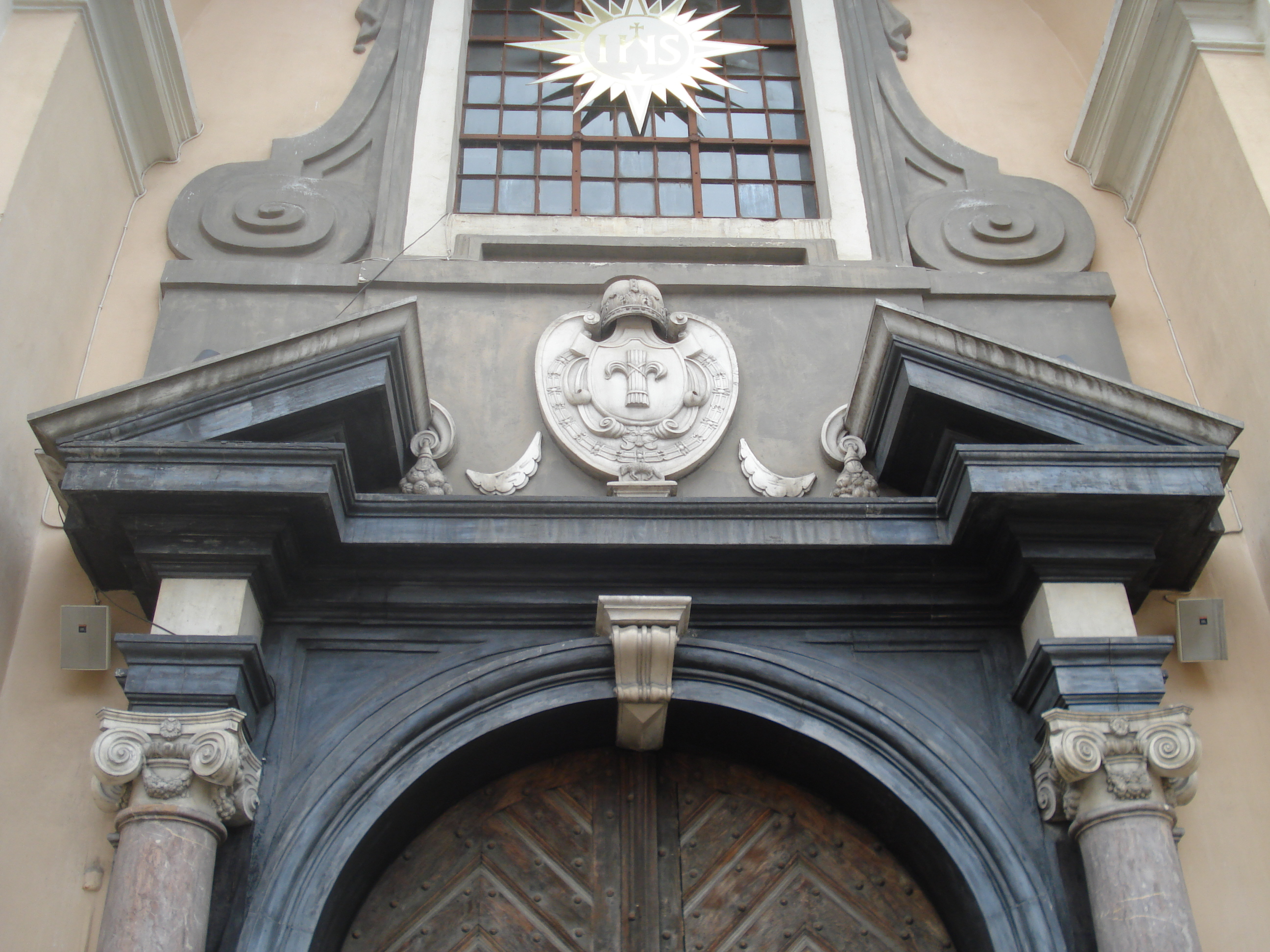 Portal of the Church of the St Teresa in Vilnius. Detail